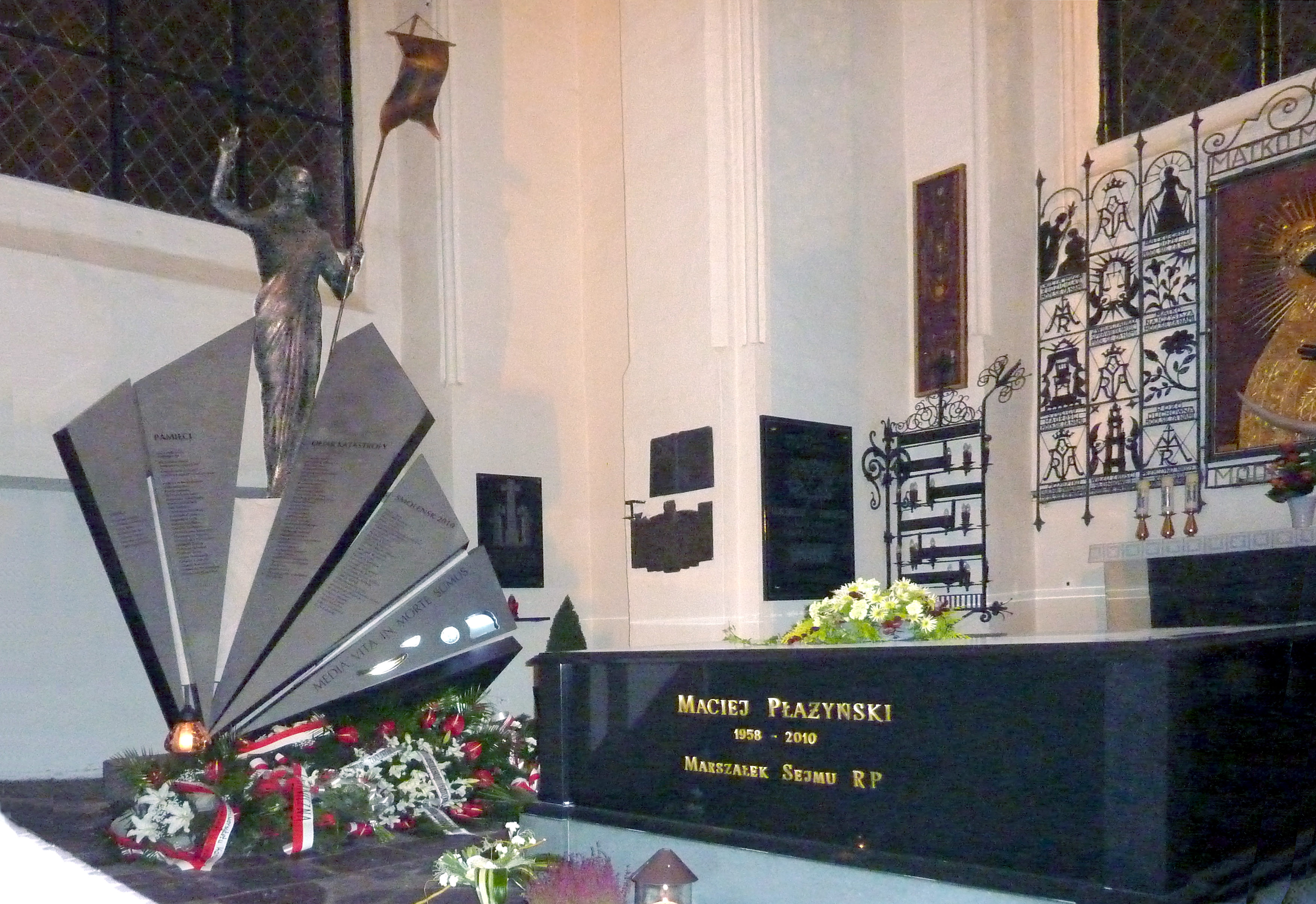 Chapel to Our Lady of Ostra Brama in the St. Mary's Church in Gdańsk